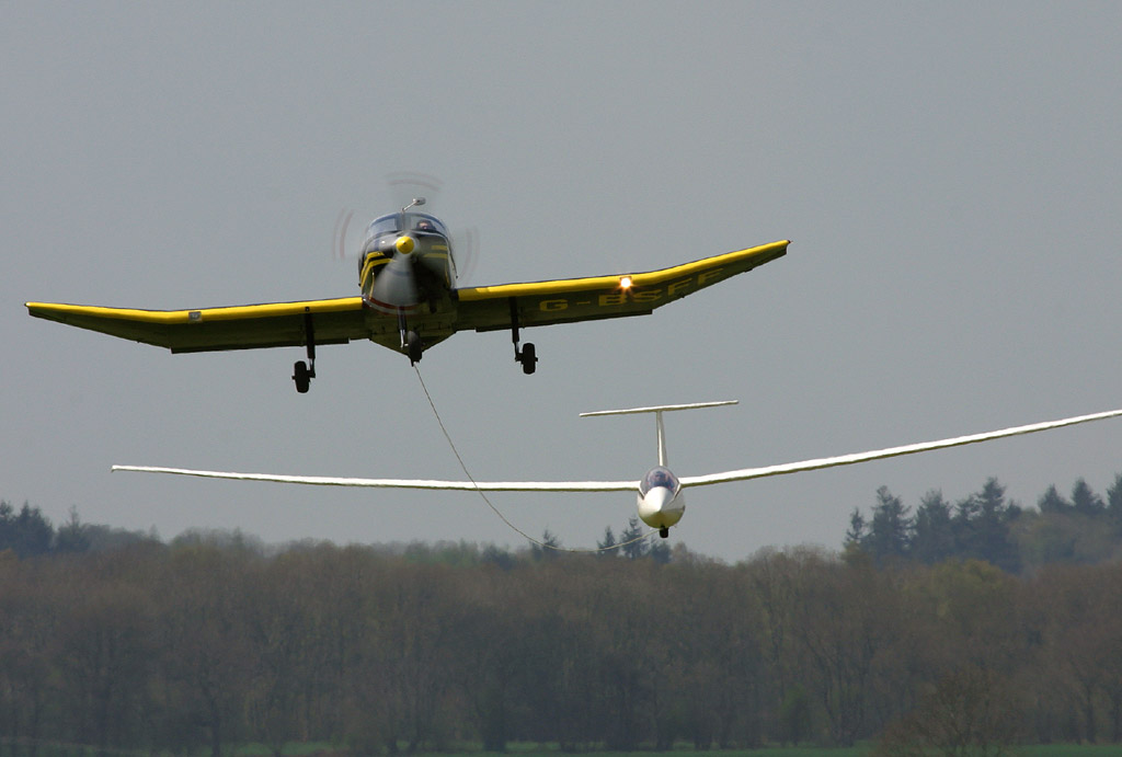 LS6 glider on aerotow